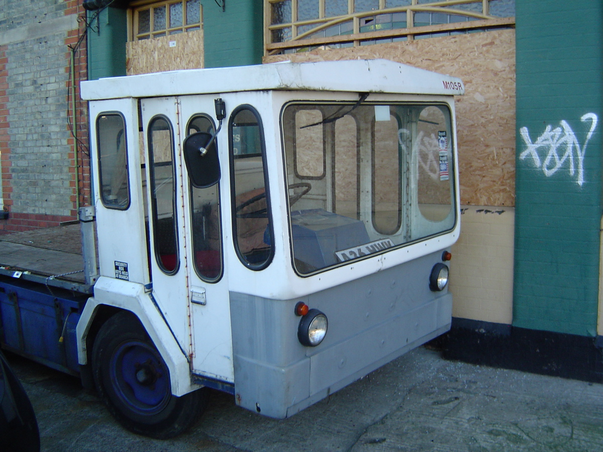 Milk Float, in working condition, seen driving around the East End of London